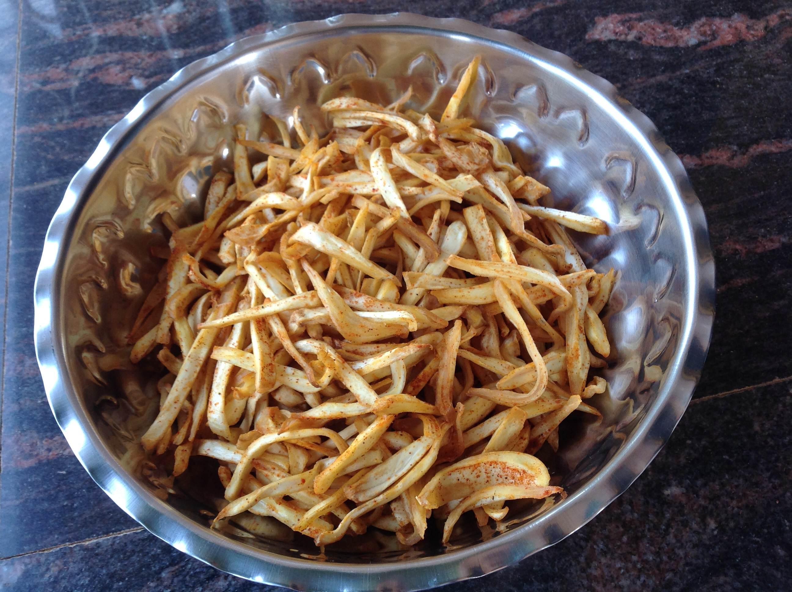 Chips of Jack fruit. Special dish in the jack fruit season April-May in Malnad region of Karnataka State In India.